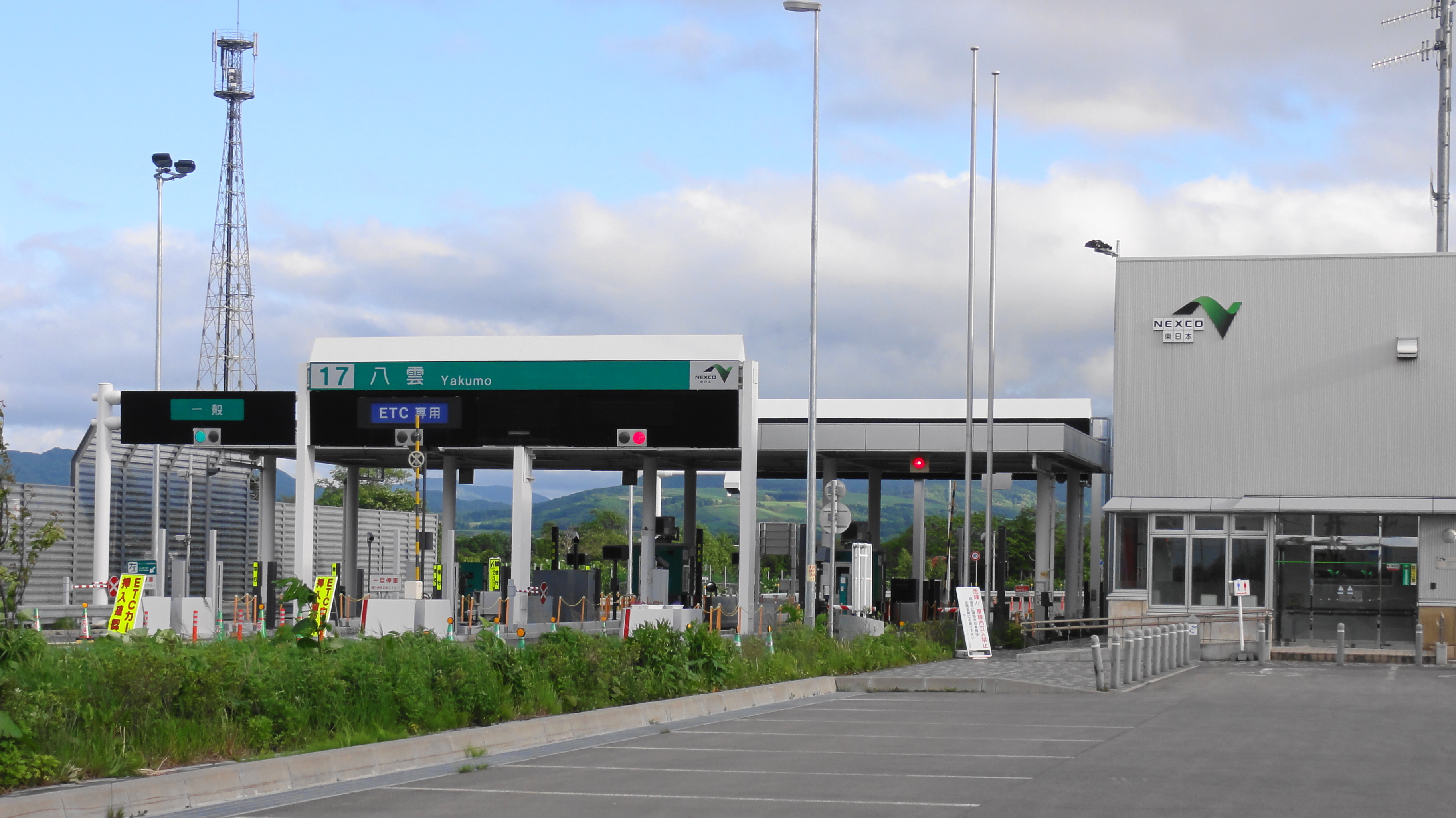 Yakumo Inter Change,Hokkaido Prefecture, Japan